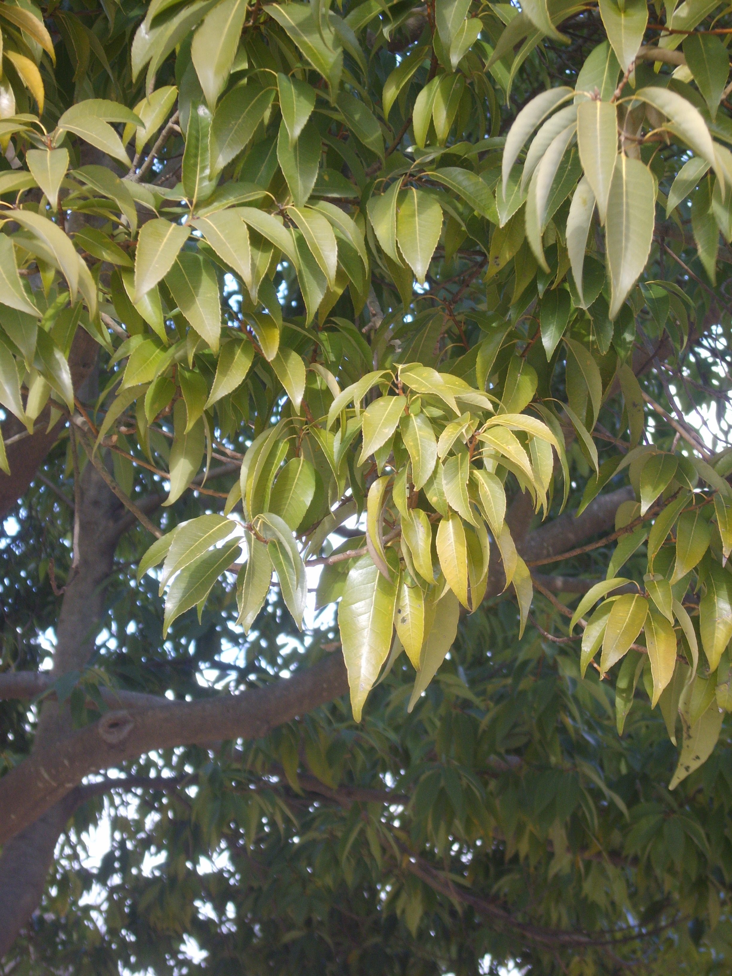 Quercus myrsinifolia. Gwangu Korea. 광주 중외공원에서 찍음